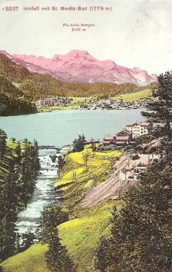 Inn fall 1905, St. Moritz, Switzerland